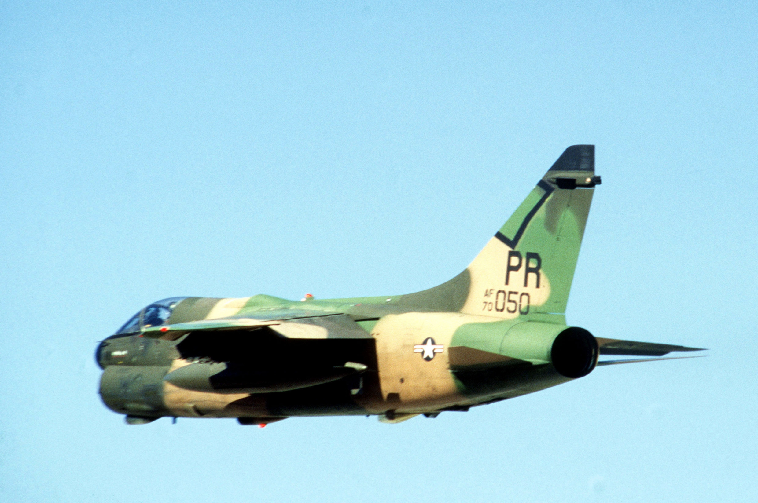 A U.S. Vought A-7D Corsair II aircraft (s/n 70-1050) from the 198th TFS, 156th TFG, Puerto Rico Air National Guard, in flight on 15 October 1981. 1972: Aircraft delivered to 355th Tactical Fighter Wing, Nellis AFB, NV (c/n D-196) Transferred to 198th Tactical Fighter Squadron, PR Air National Guard, 1979 Destroyed by terrorist attack on Muniz Air National Guard Base Jan 12, 1981